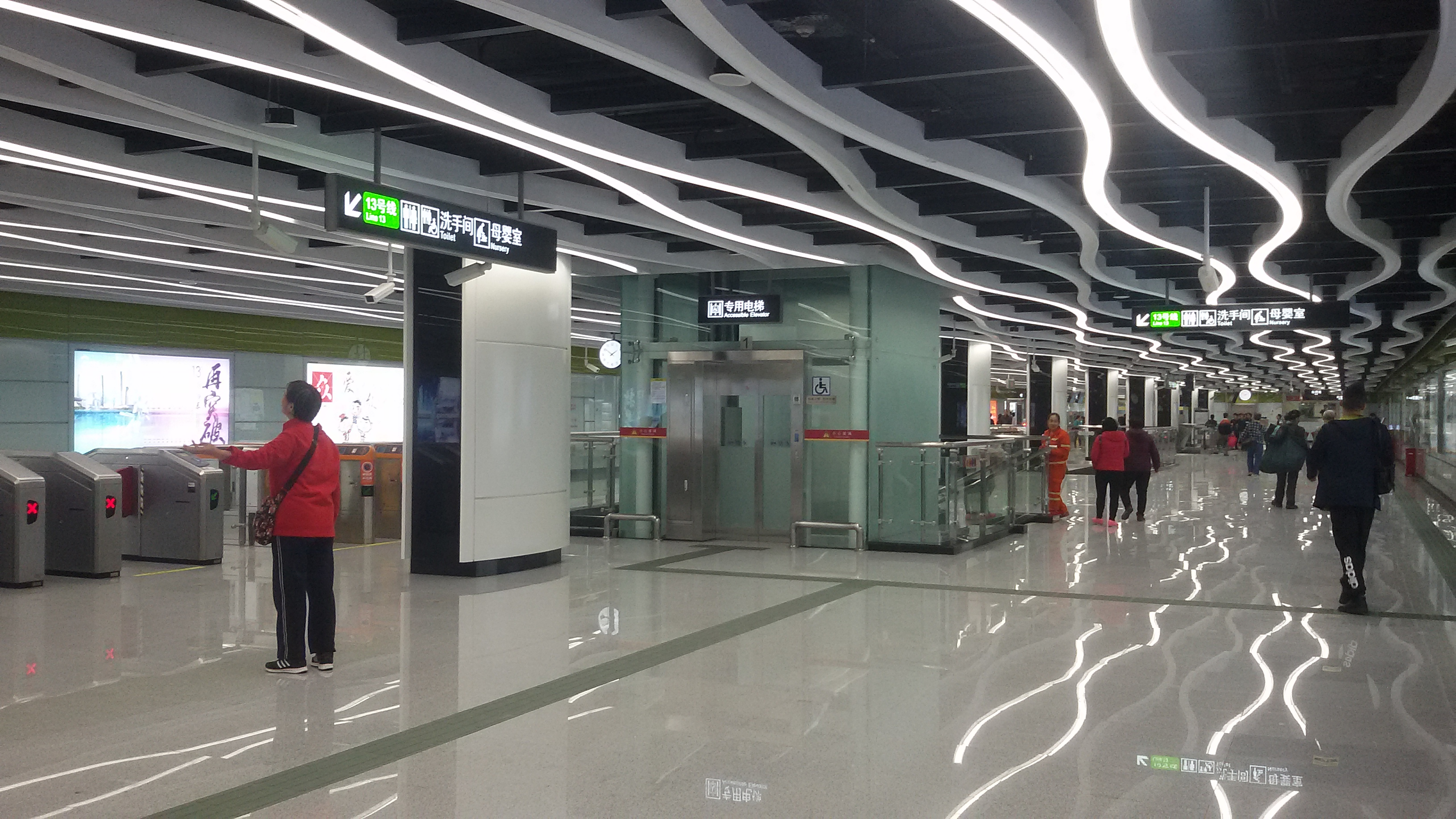 Station Concourse for Shuanggang Station in Guangzhou Metro.